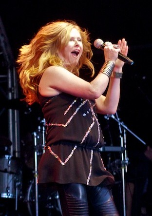 T'Pau, "Flashback to the 80's" festival in Clumber Park, Nottingham, England, 20th August 2010.